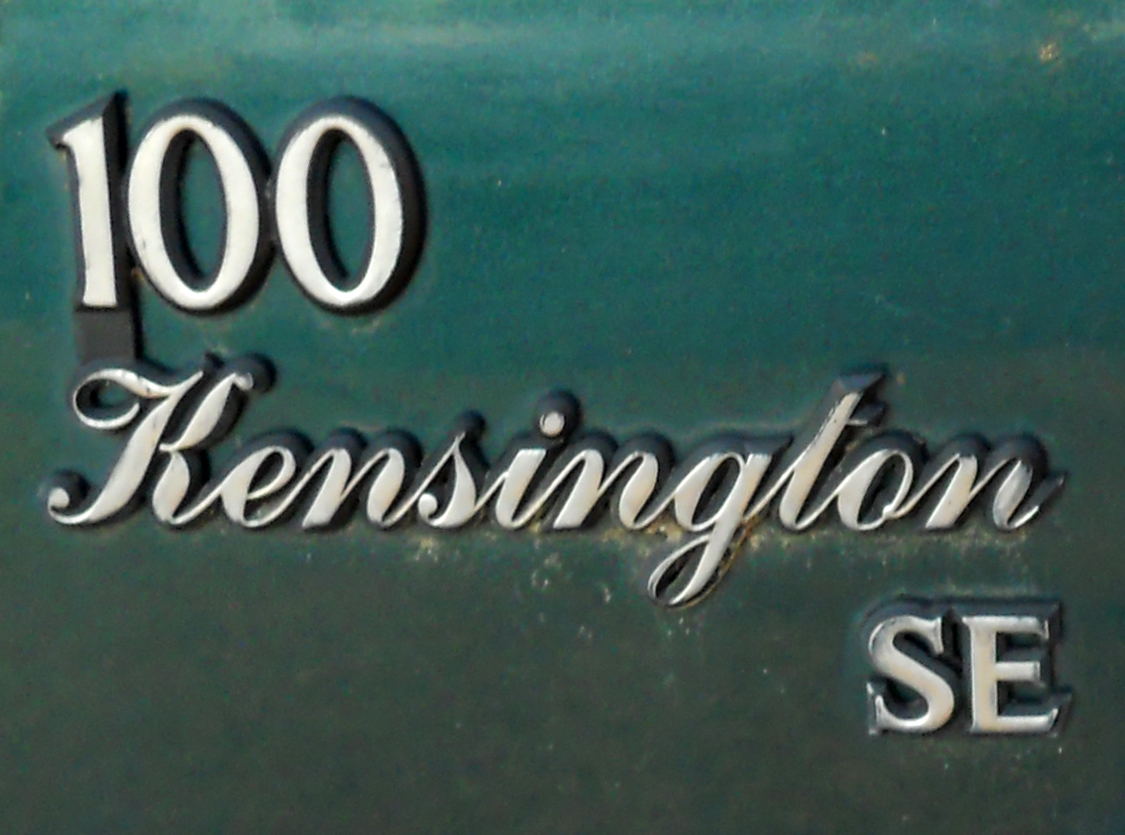 Rover 100 Kensington SE badge; this one is from a 1996 italian exemplar.